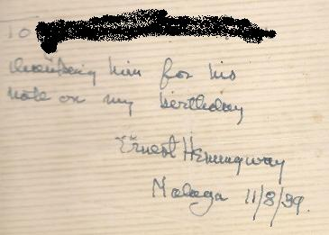 Autographed letter from Personal Collection